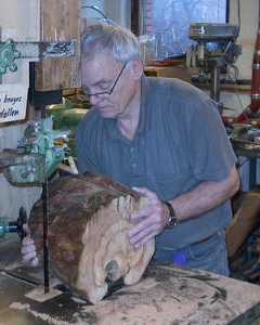 Finn Hermansen an employee of Dansk Skolesløjds Værktøjshandel in Copenhagen and later Dansk Sløjdlærerskole (Danish School for Educators of Sloyd).